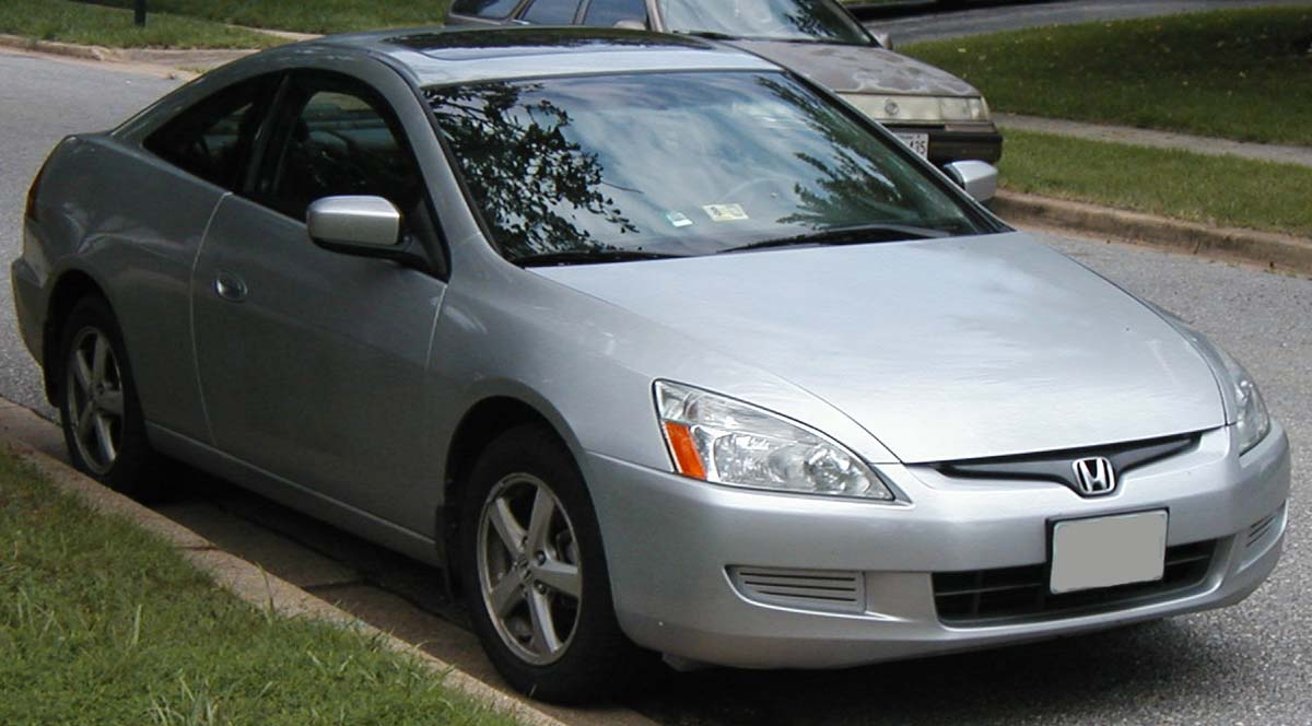 2003-2005 Honda Accord coupe photographed in USA.